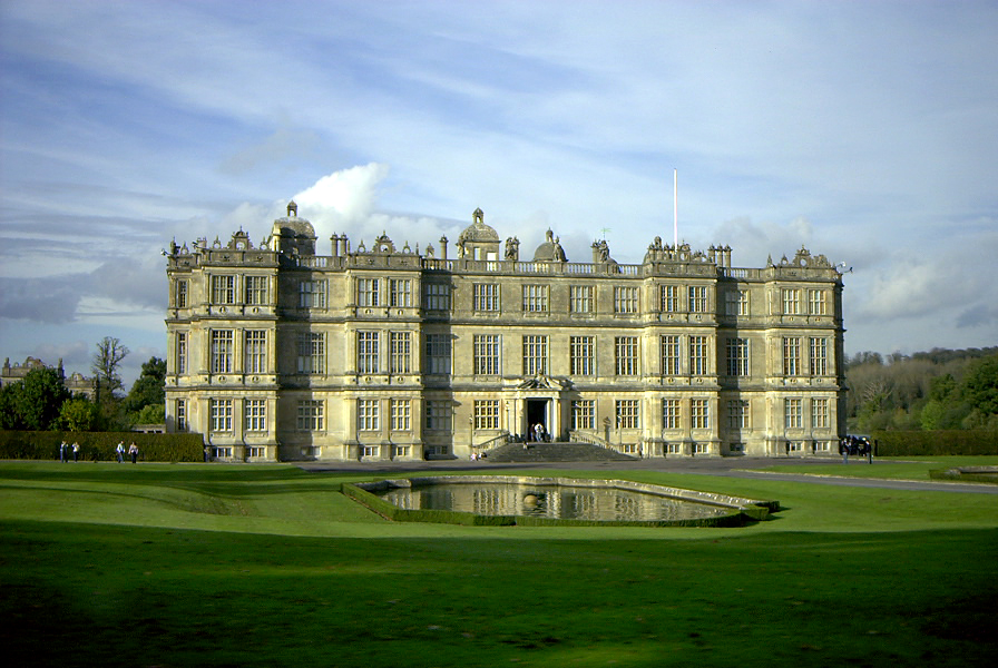 View towards Longleat House